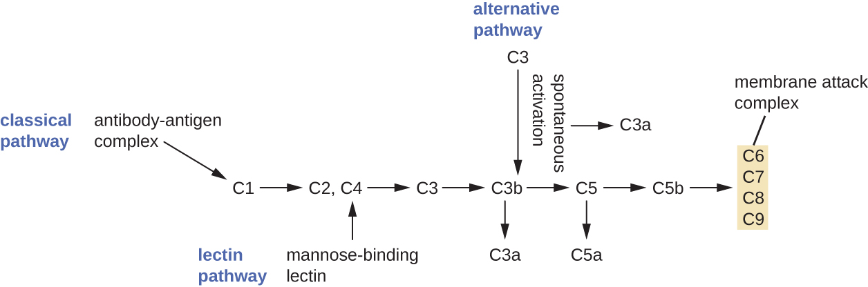 Name: Microbiology ID: Language: English Summary: Subjects: Science and Technology Keywords: Print Style: License: Creative Commons Attribution License (by 4.0) Authors: OpenStax Microbiology Copyright Holders: OpenStax Microbiology Publishers: OpenStax Microbiology Latest Version: 4.4 First Publication Date: Oct 17, 2016 Latest Revision: Nov 11, 2016 Last Edited By: OpenStax Microbiology